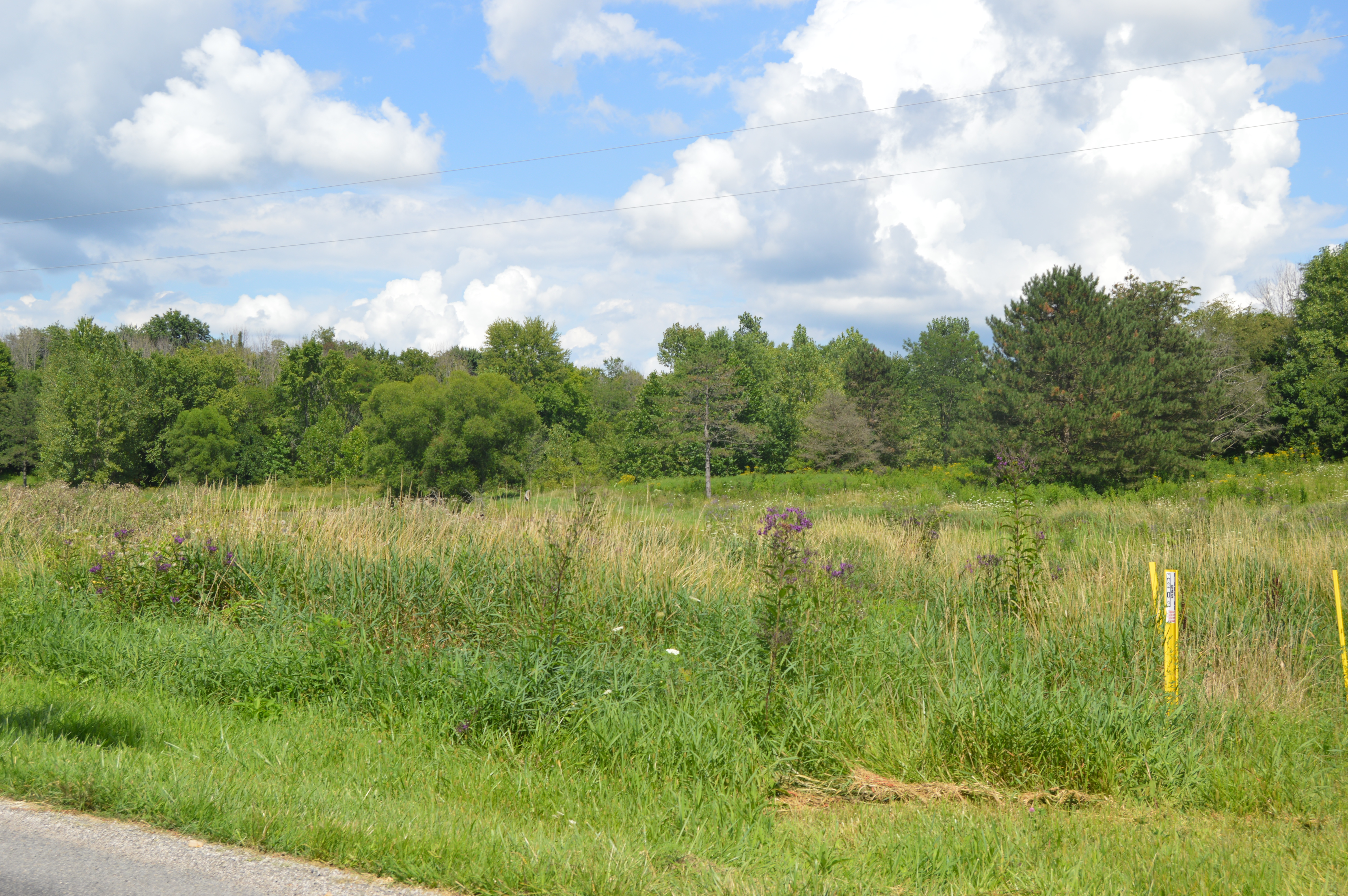 Open countryside on the northeastern corner of the intersection of Nichols Lane and Concord Road, east of Johnstown, in Liberty Township, Licking County, Ohio, United States.